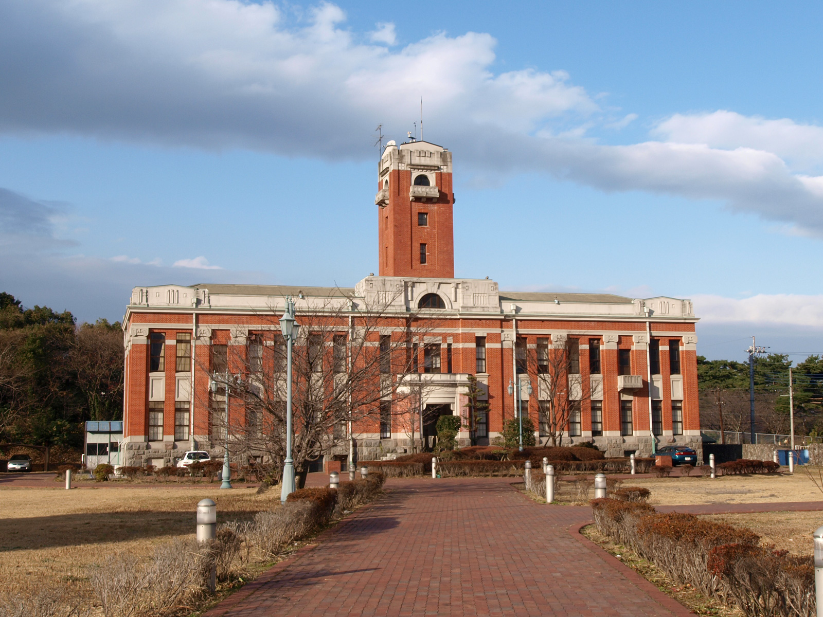 Kyoto Univ. Chikyunetsugaku Lab, Beppu City, Oita Pref., Japan